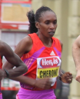 Gladys Cherono women at ~1.6 km during Hervis Prague Half Marathon 2012